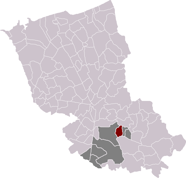 Carte de localisation de la commune de Borre / Map of localisation of the municipality of Borre